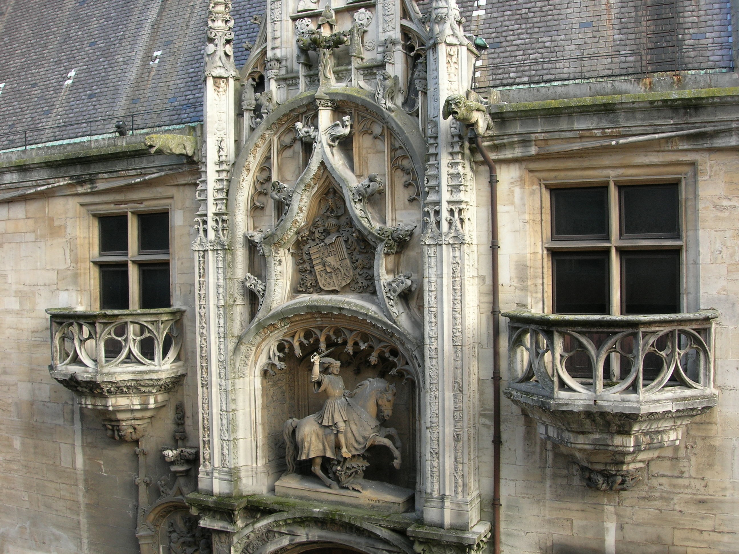 Ducal palace of Nancy